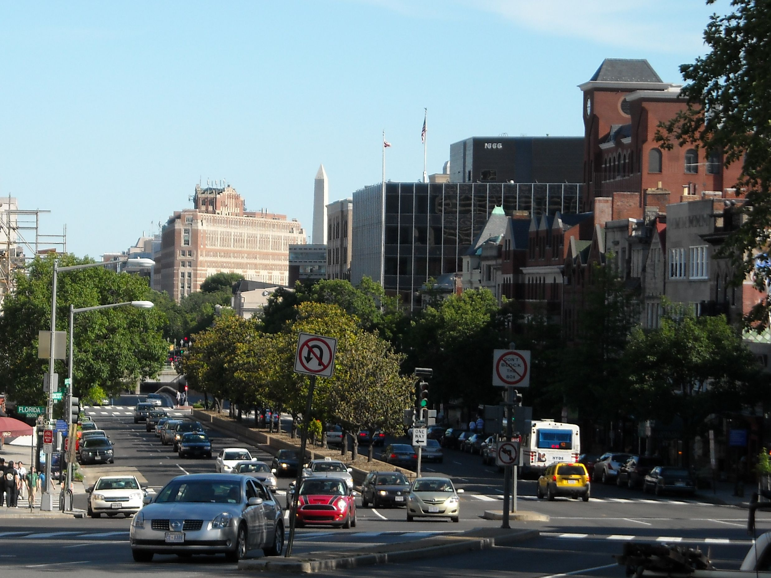 Connecticut Avenue NW in the Dupont Circle neighborhood of Washington, D.C. (viewing south; the Washington Monument can be seen in the background)